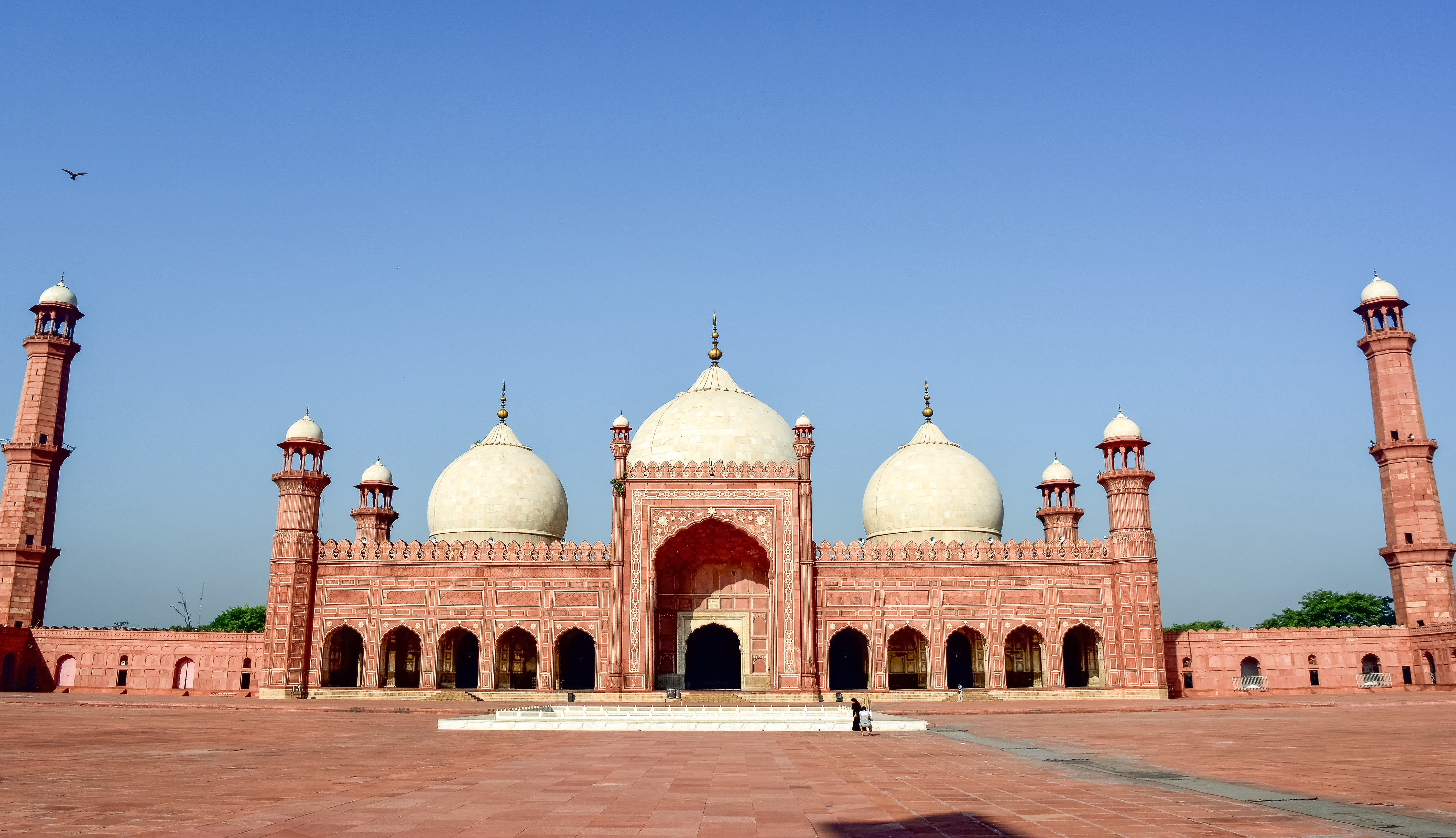 A view of the Badshahi Mosque in Lahore